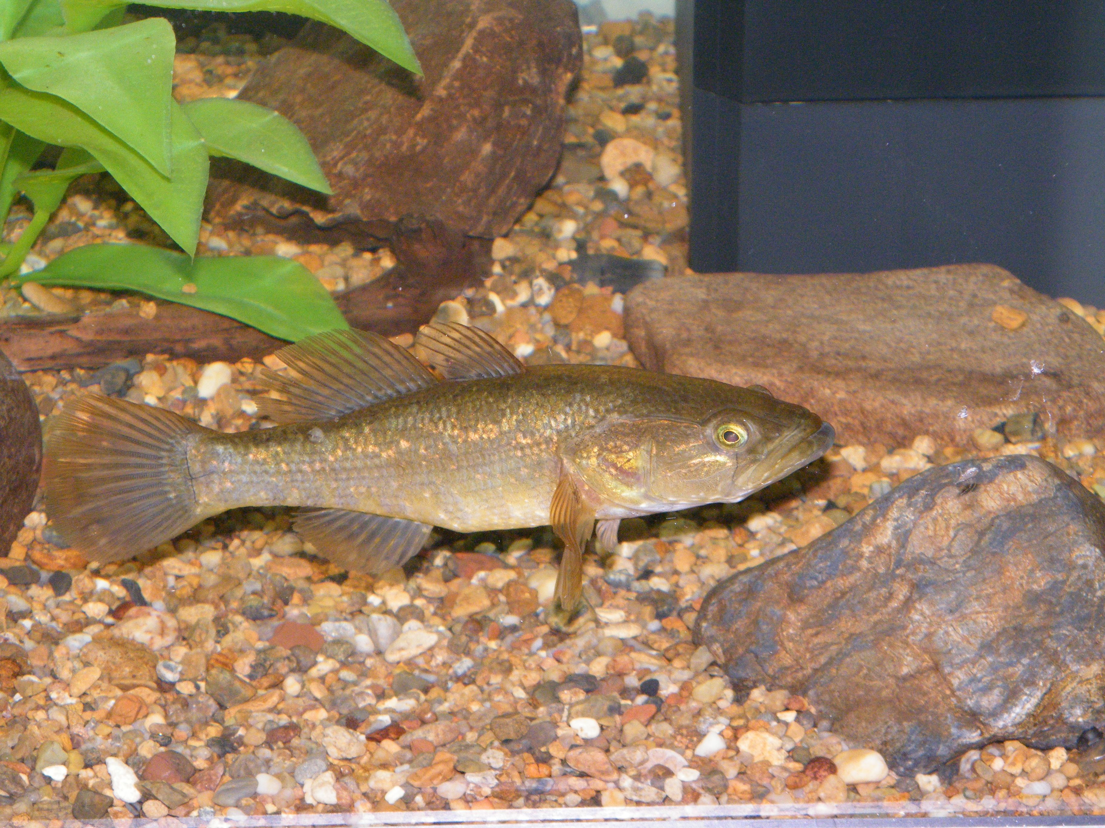 Perccottus glenii (Chinese sleeper)